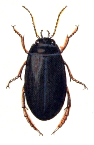 Meladema coriacea female, from Calwer's Käferbuch, Table 8, Picture 3. Taxonomy was updated to 2008, using mostly the sites Fauna Europaea and BioLib. Please contact Sarefo if the determination is wrong!